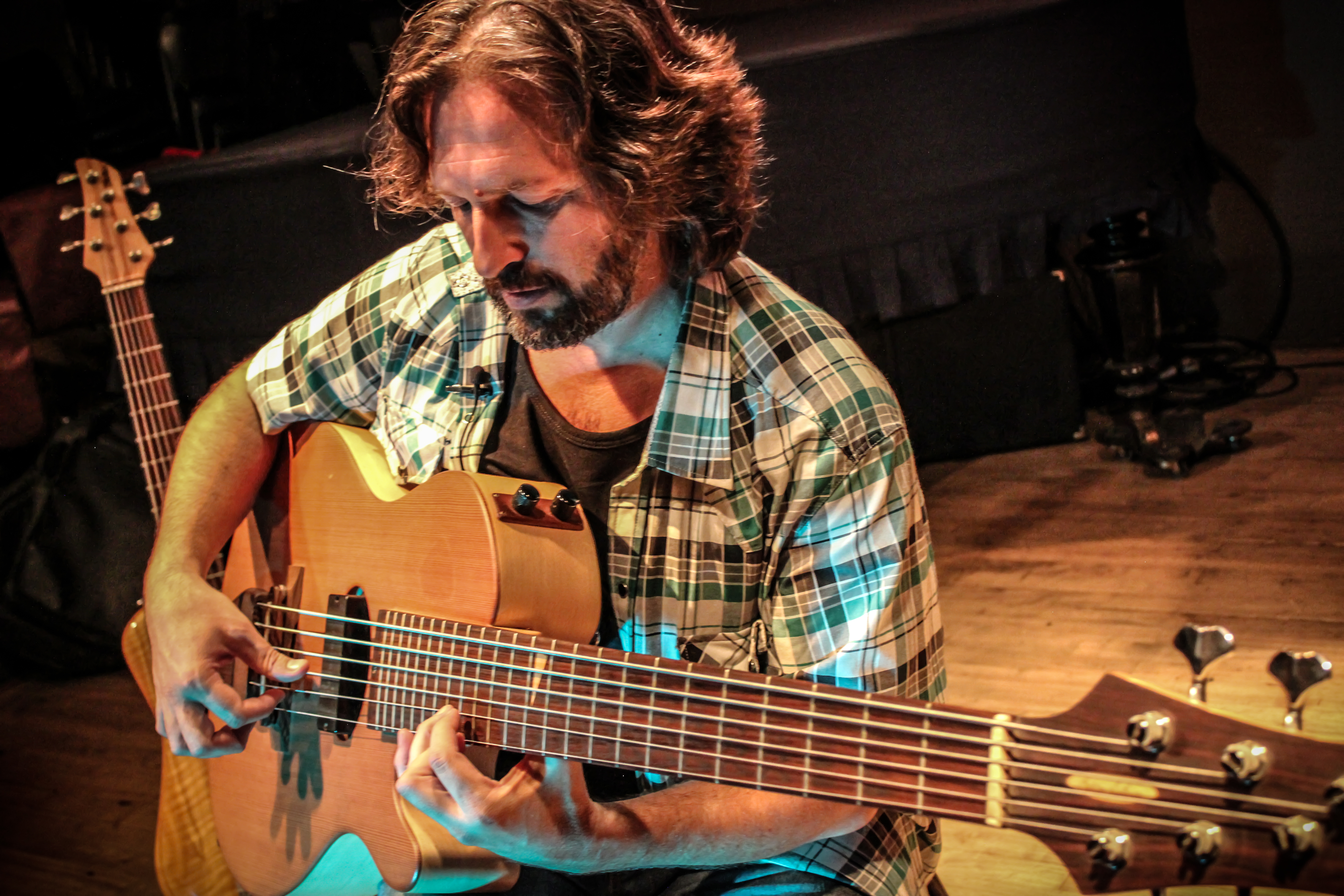 Willy González at a videoclip shooting session.